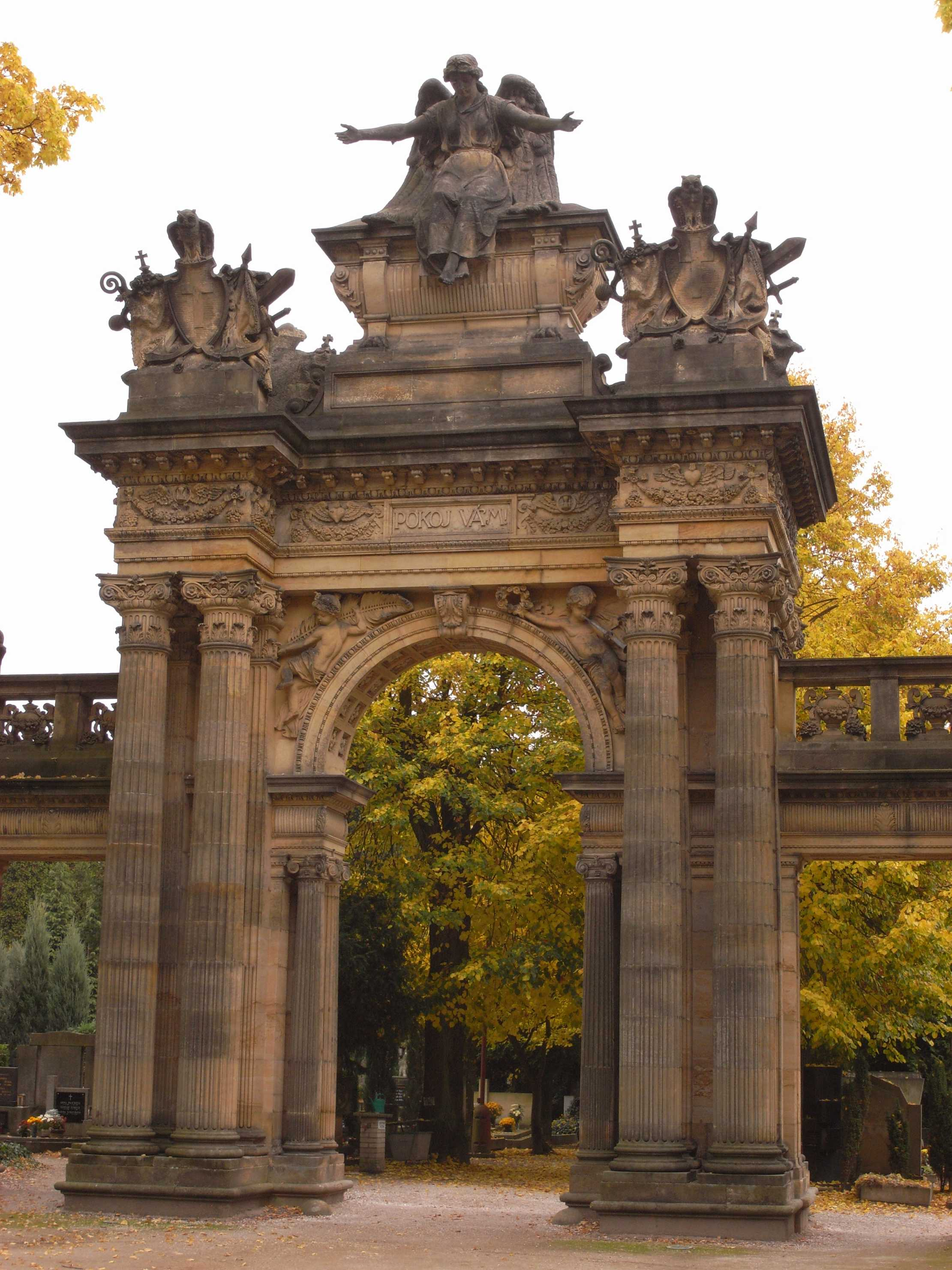 Portal of the New Cemetery (Hořice v Podkrkonoší, the Czech Republic). Built 1893-1907, sandstone from Hořice region, important sculpture school of Hořice city